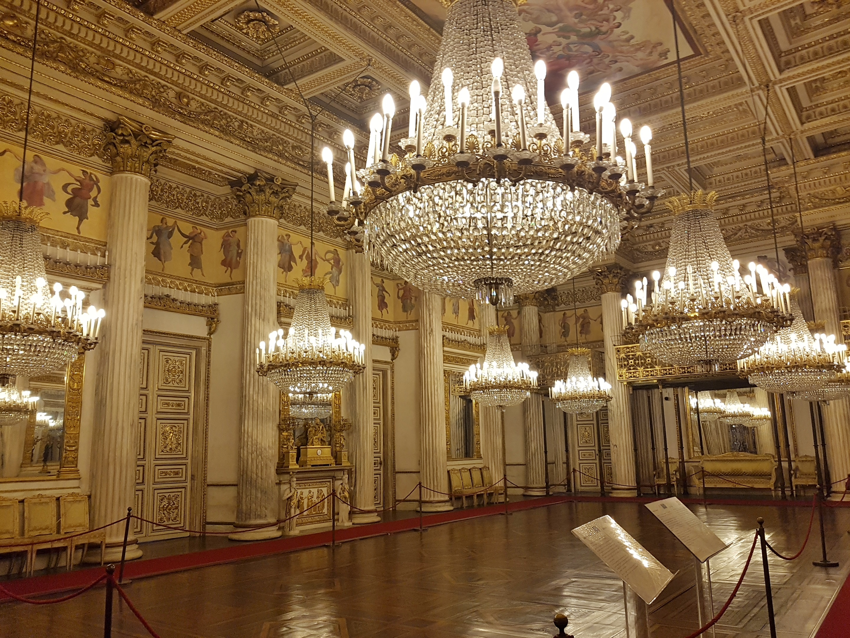 First Floor: Dancing Hall, Royal Palace of Turin, Northern Italy